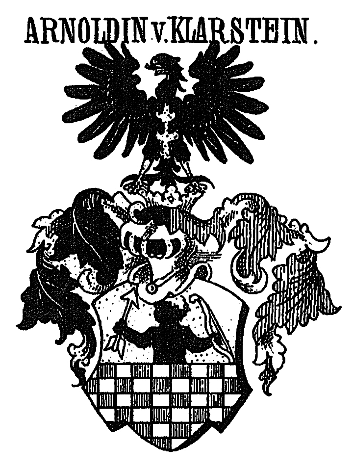 Coat of Arms of Arnoldin von Klarstein (Knights)